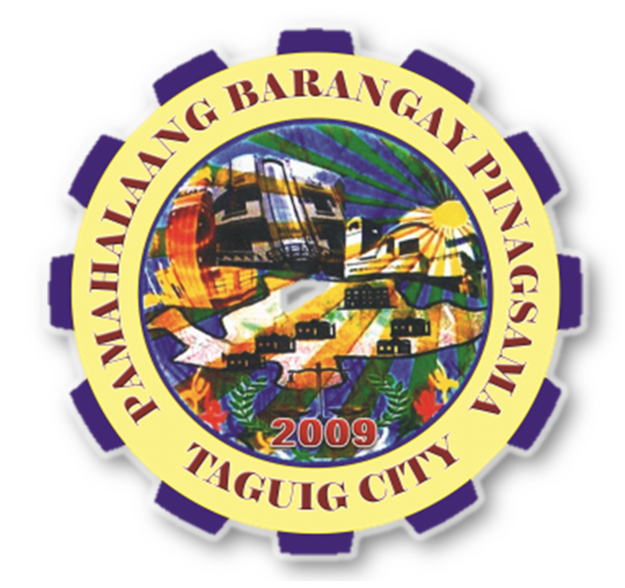 SEAL OF BARANGAY PINAGSAMA FROM 2012-2017